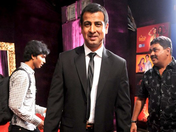 Ronit Roy at Star Parivar Awards 2010